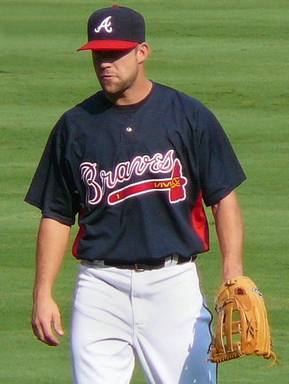 If used somewhere other than Wikipedia, Nelson, by name. 03:50, 20 September 2009 . . Chrisjnelson . . 555×538 (282 KB)